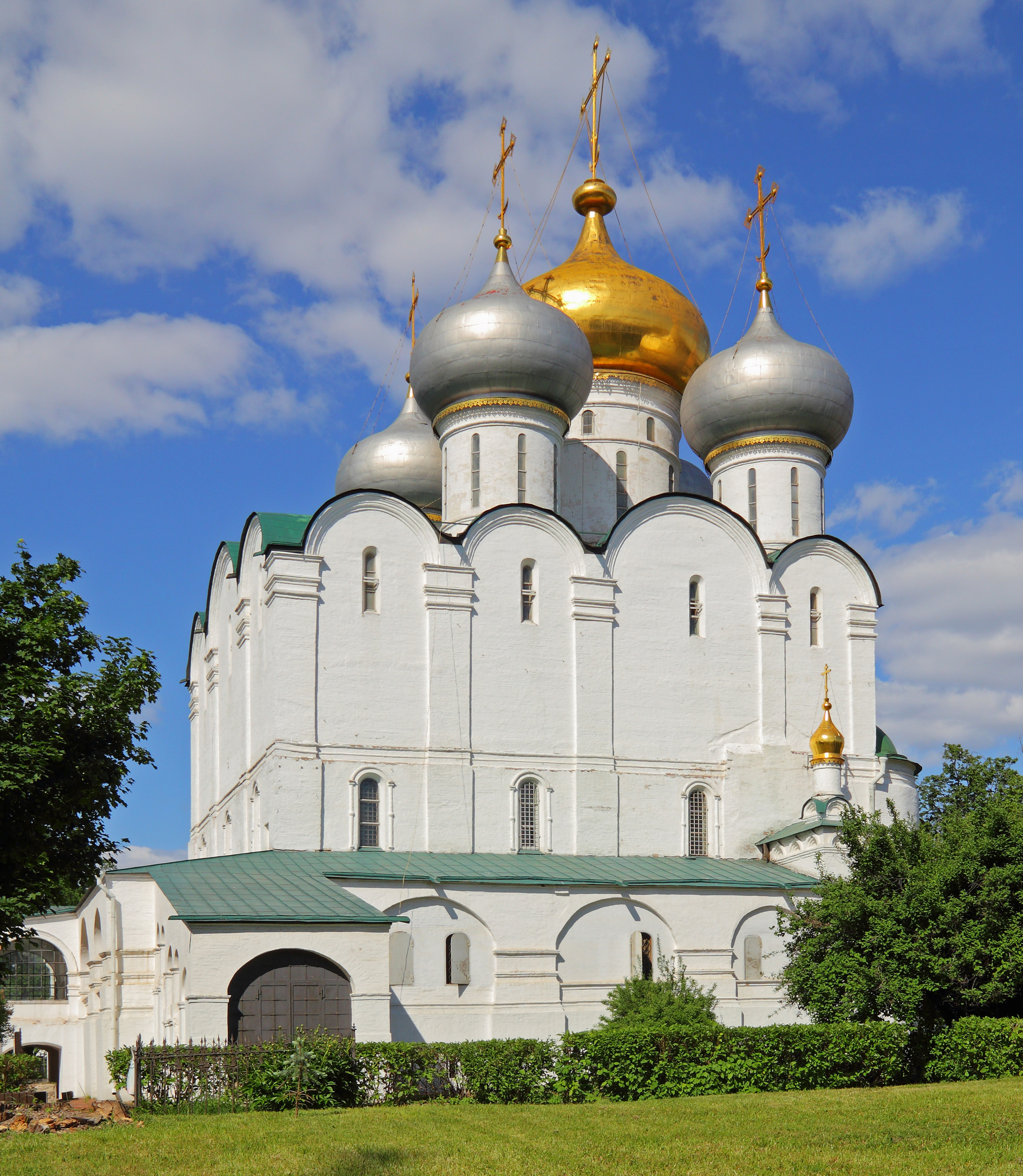 Moscow, Russia. Novodevichy Convent. Smolensk Cathedral.